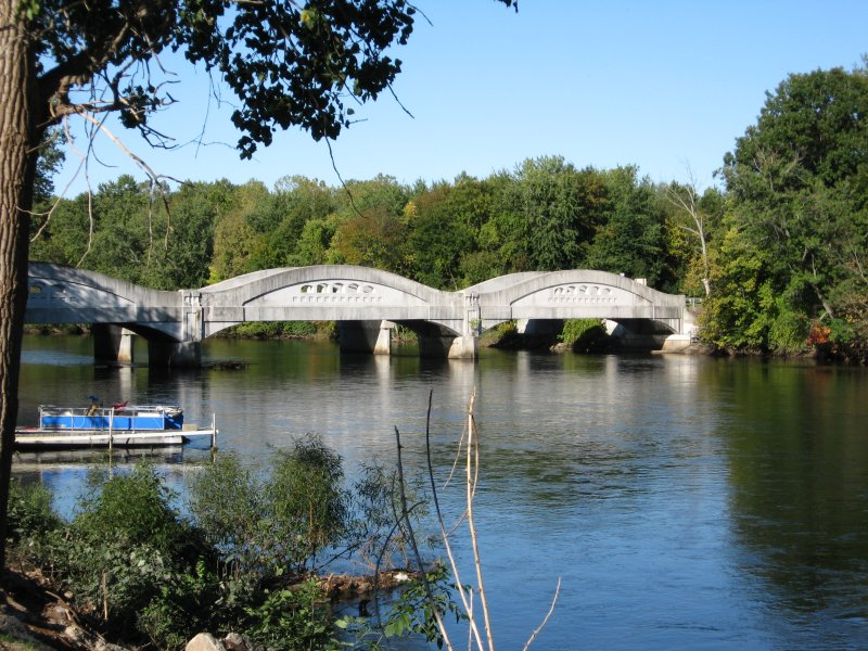 The US 12–St. Joseph River Bridge, a three-span camelback bridge in Mottville, Michigan. The replacement bridge is behind the camelback.